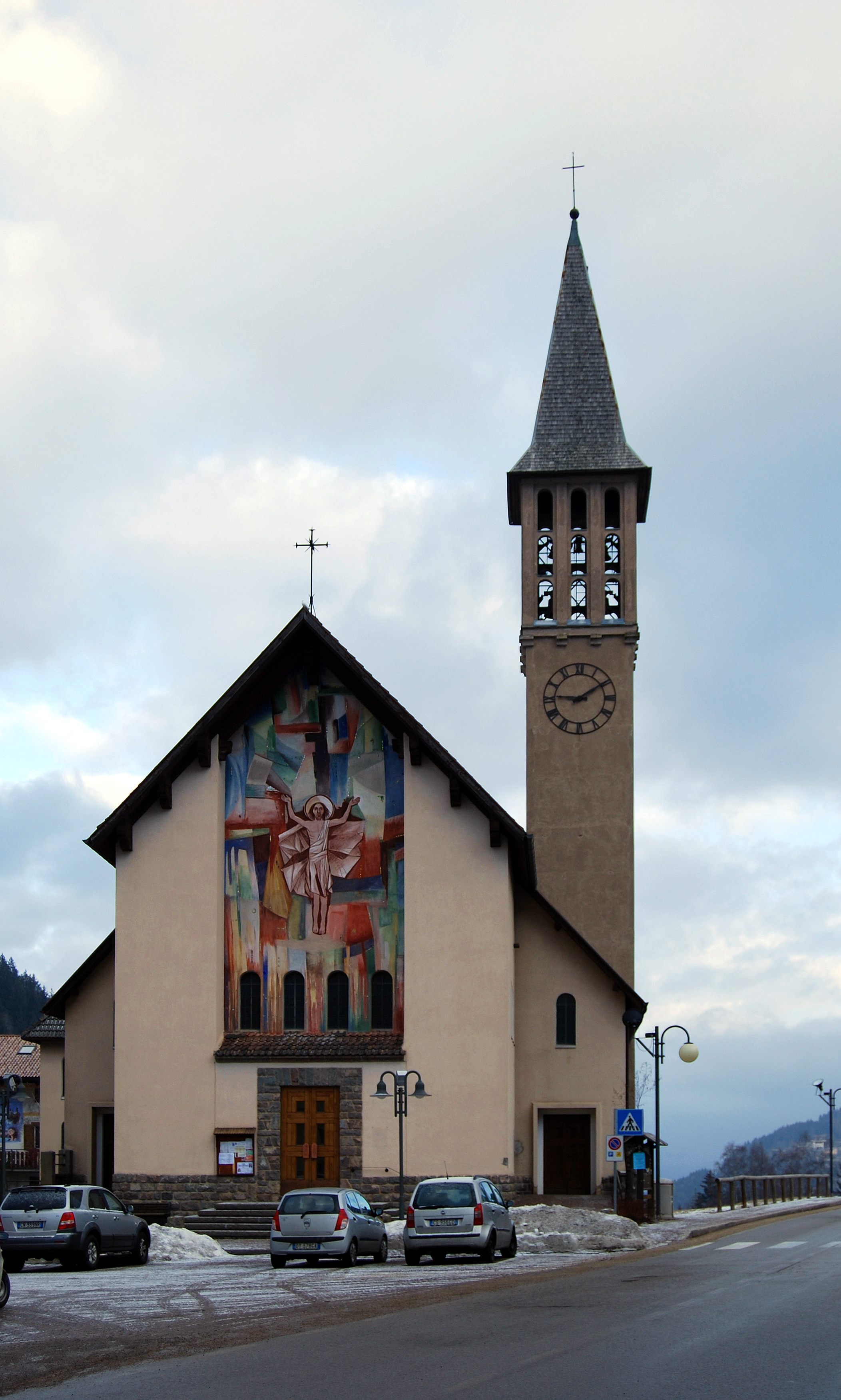 Church in Brusago (part of Bedollo), Trentino-South Tyrol